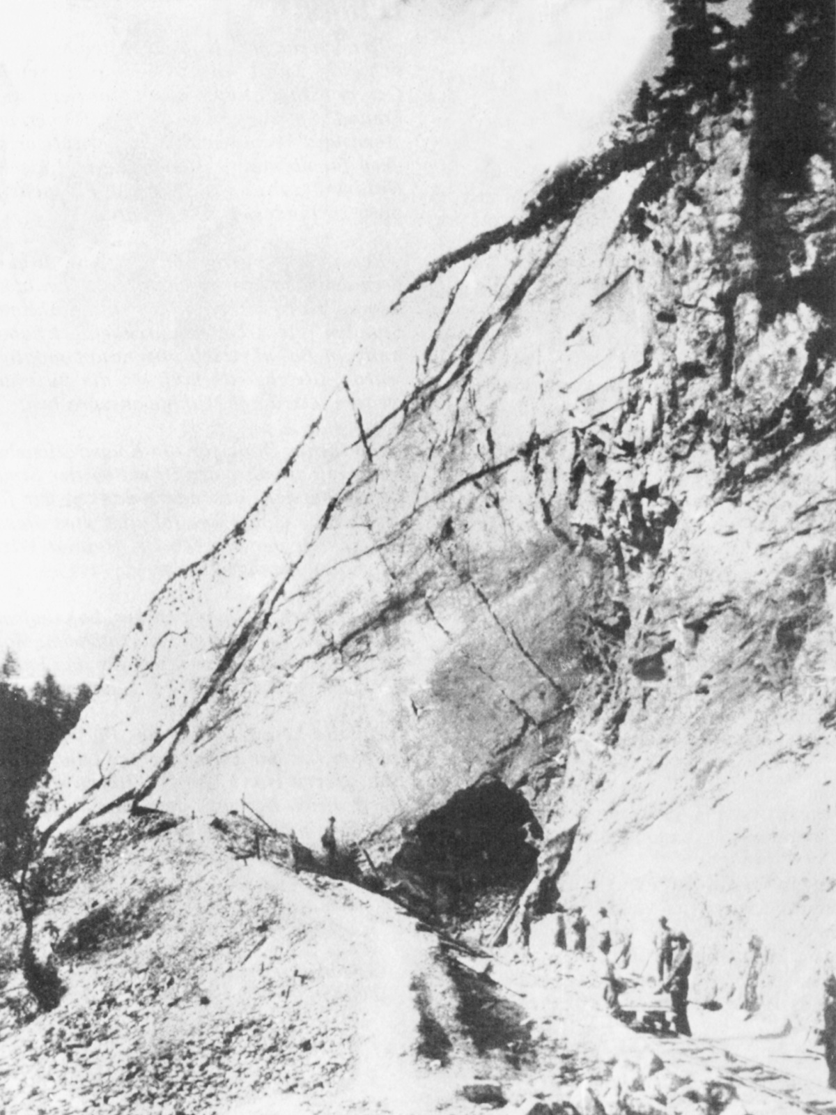 Building of the only tunnel of the Kapfenberg narrow gauge line near Thörl